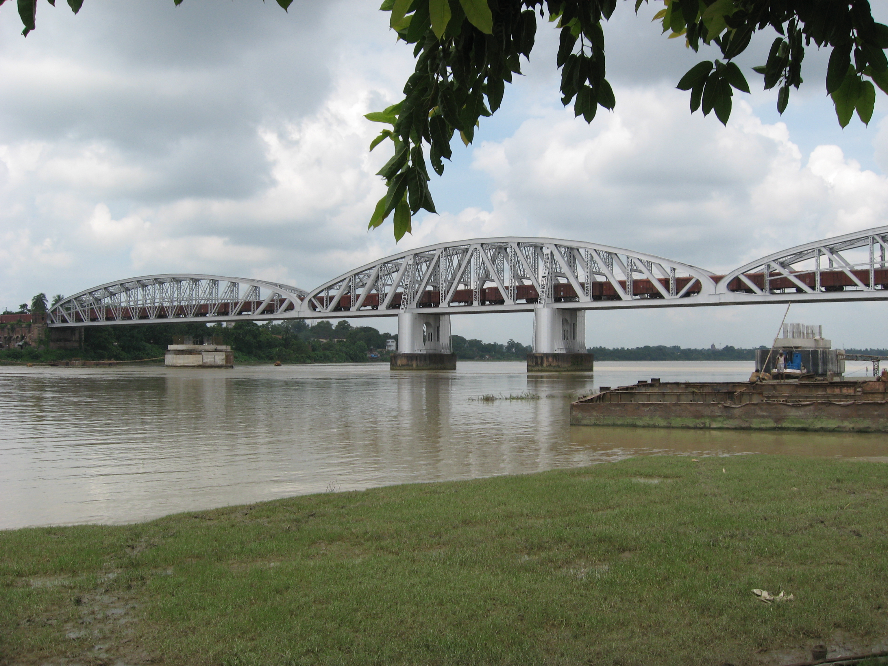 Jubilee Bridge is an important bridge over Hooghly River between Naihati and Bandel. Jubilee Bridge is flanked on either side by Garifa and Hooghly Ghat stations.